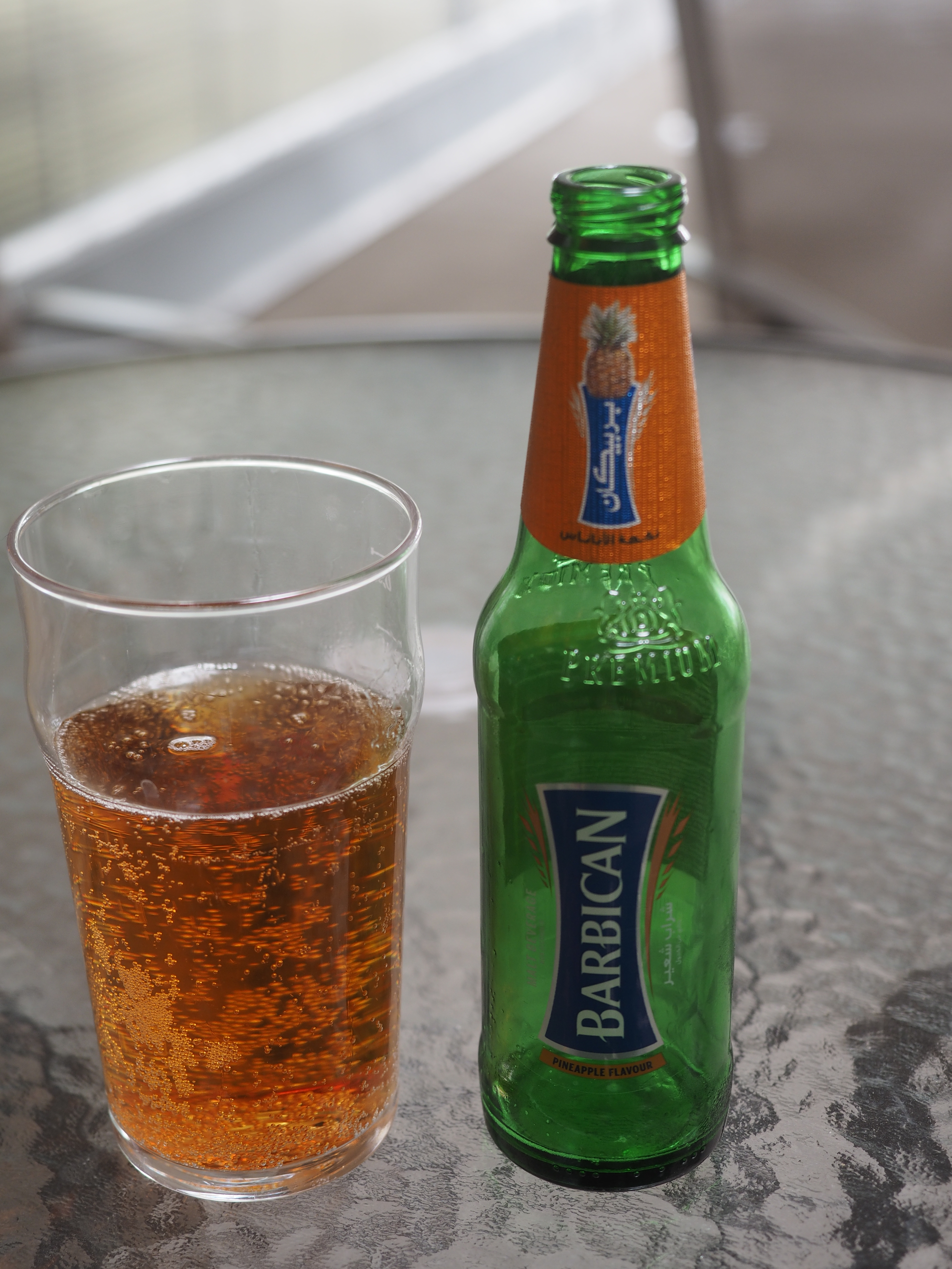 A bottle of pineapple flavour Barbican non-alcoholic malt drink, with its contents poured into a glass, photographed at a restaurant in Lehtisaari, Helsinki, Finland.